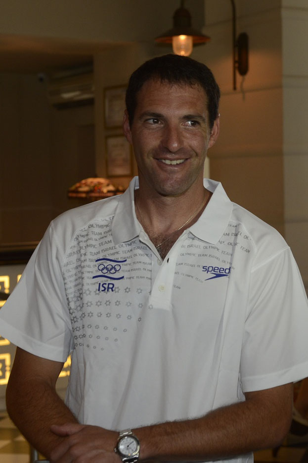 Jonathan Erlich, 2012